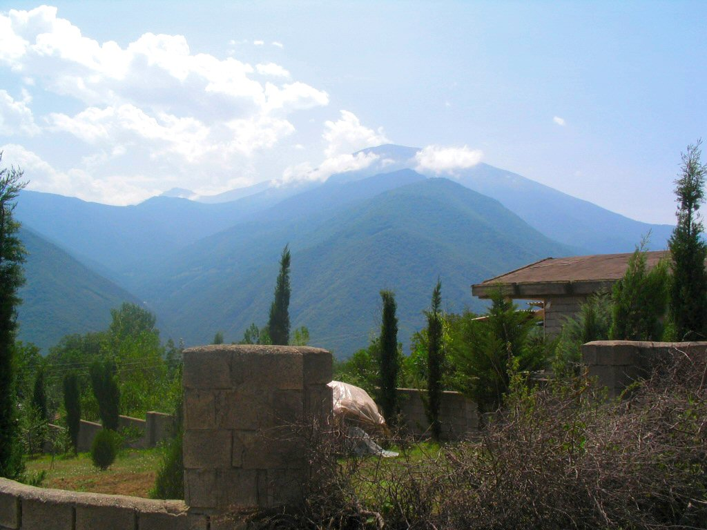 Mountain village in Chalus County, Mazandaran, Northern Iran